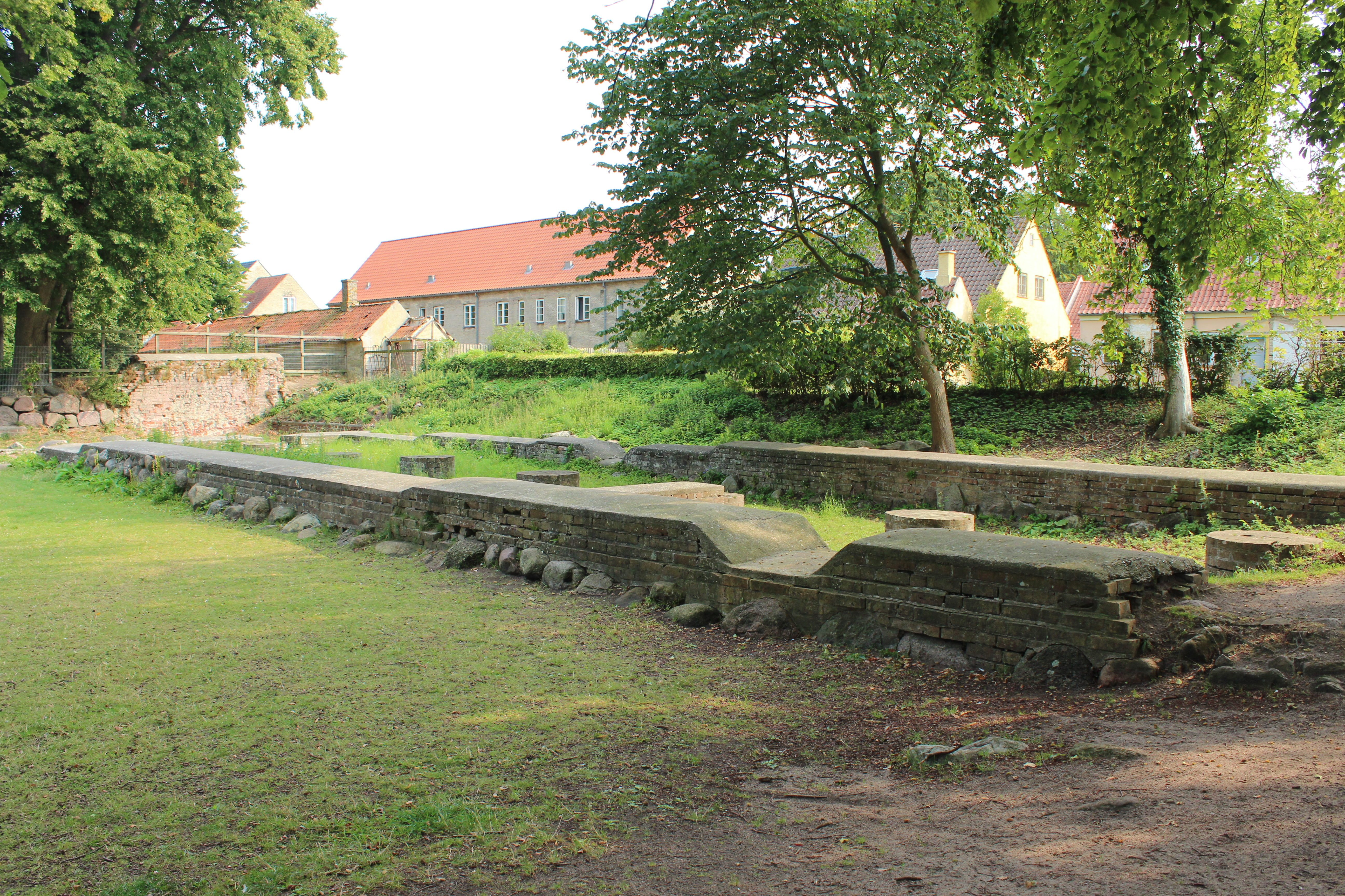 Ruins of Maribo Abbey, Lolland.